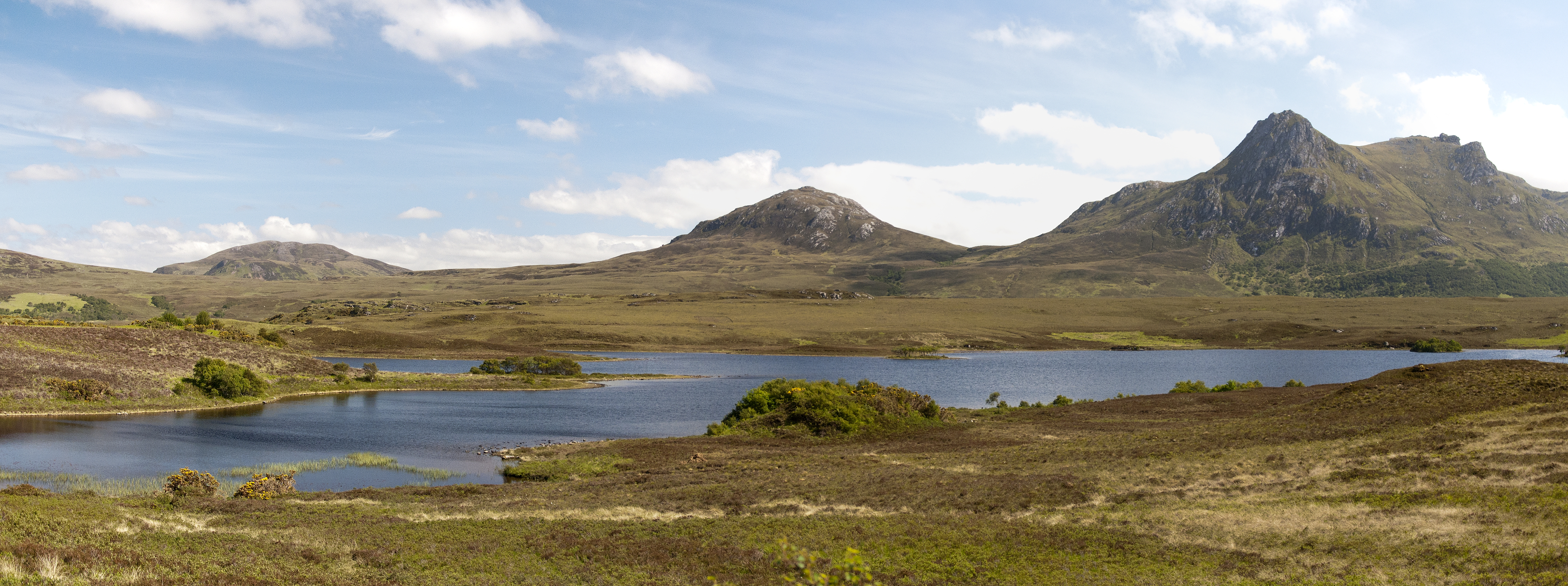 Loch Hakon, Tongue, Scotland